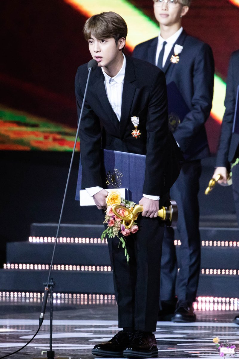 Kim Seok-jin at the 2018 Korean Popular Culture & Arts Awards on 24 October 2018